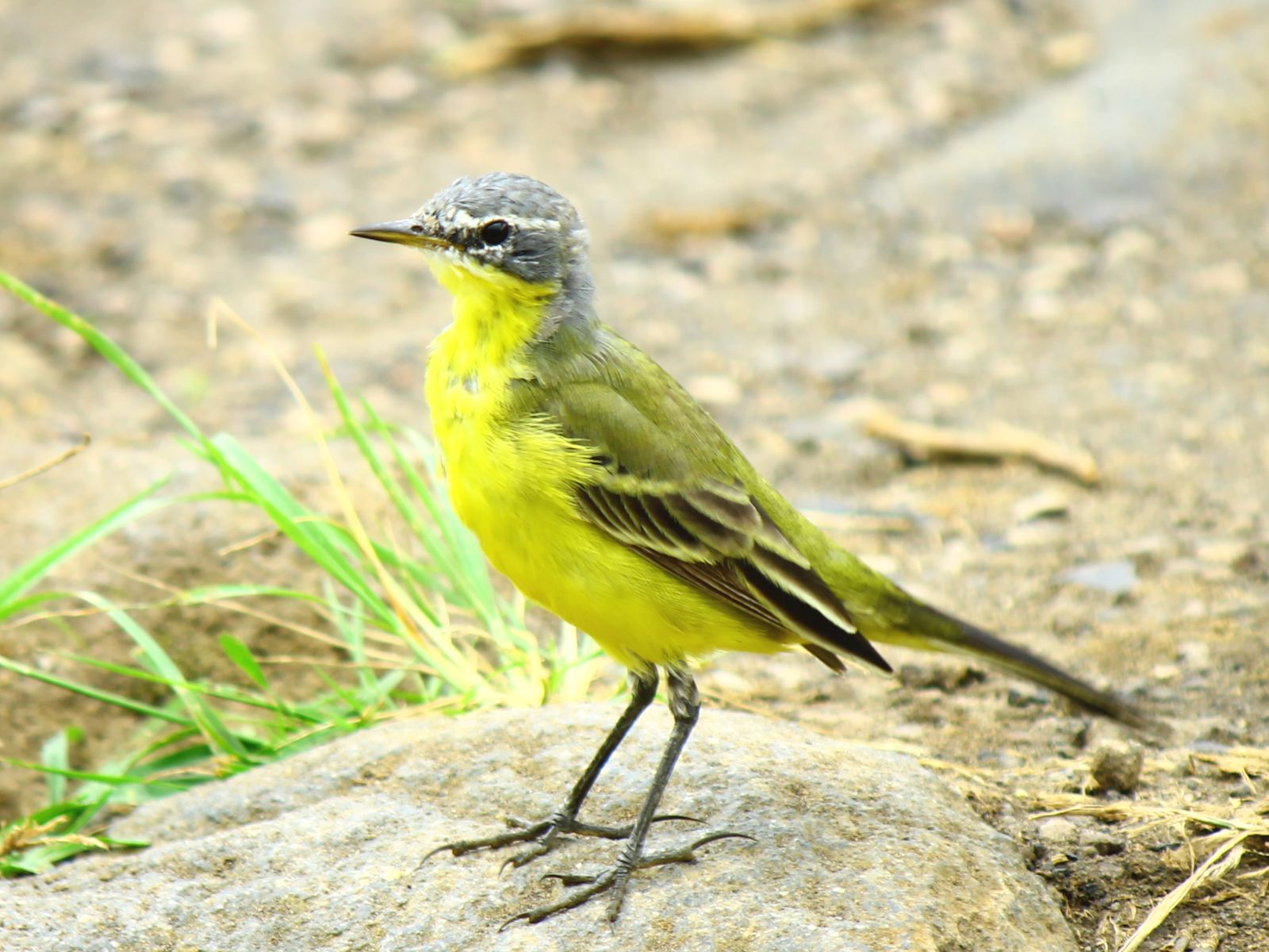 Eastern Yellow Wagtail. Tomohon, North Sulawesi